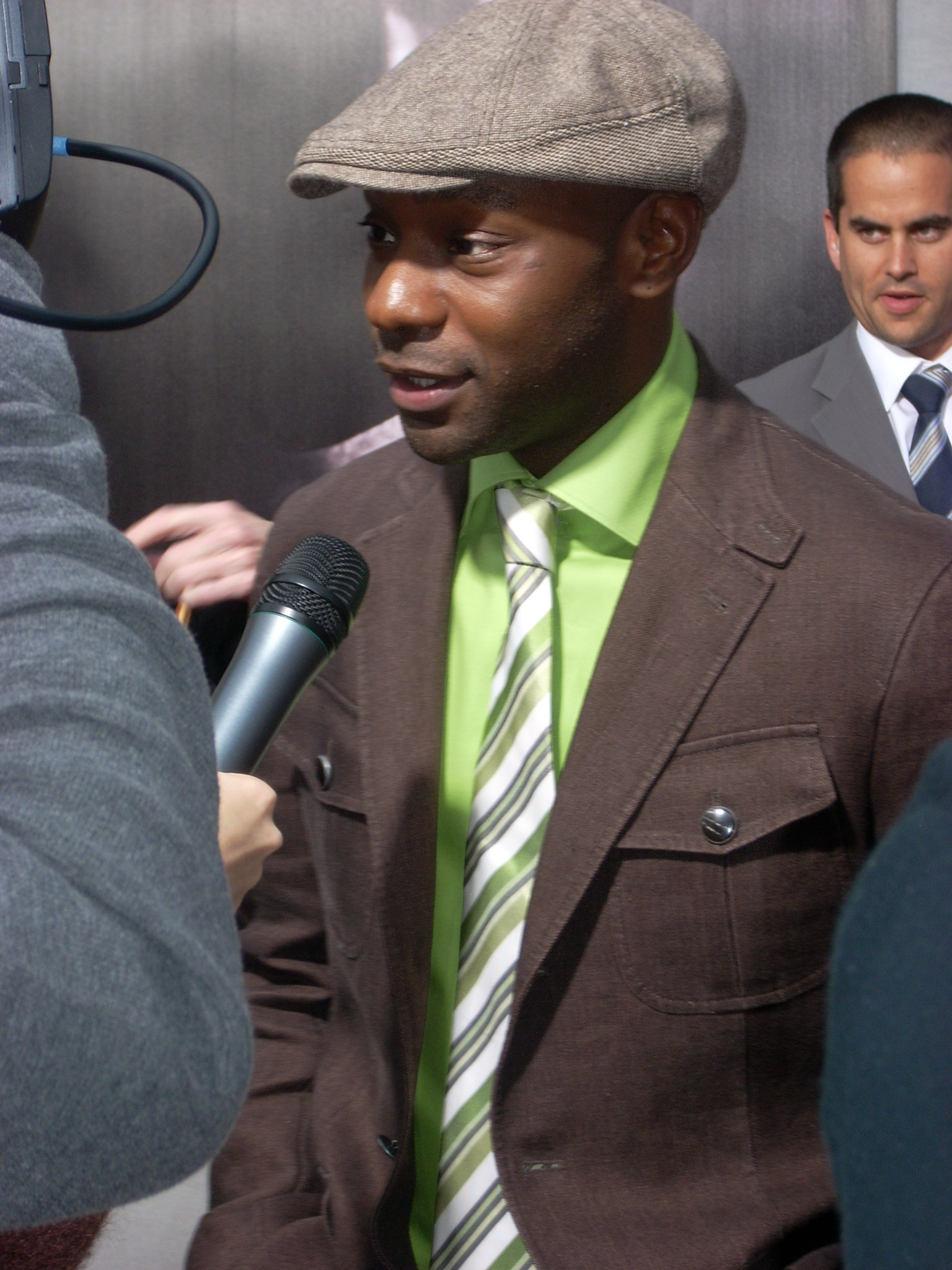 Nelsan Ellis at the "True Blood" Season Two Premiere Party - Paramount Theater, Paramount Studios, Hollywood, Calif. - June 9, 2009